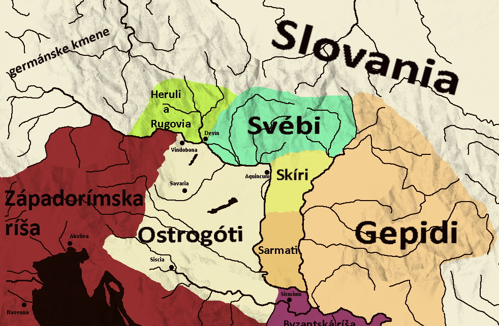 Pannonian Basin in 5th century, local tribes (in Slovak), based on map in: Ottov historický atlas Slovensko (p. 46)